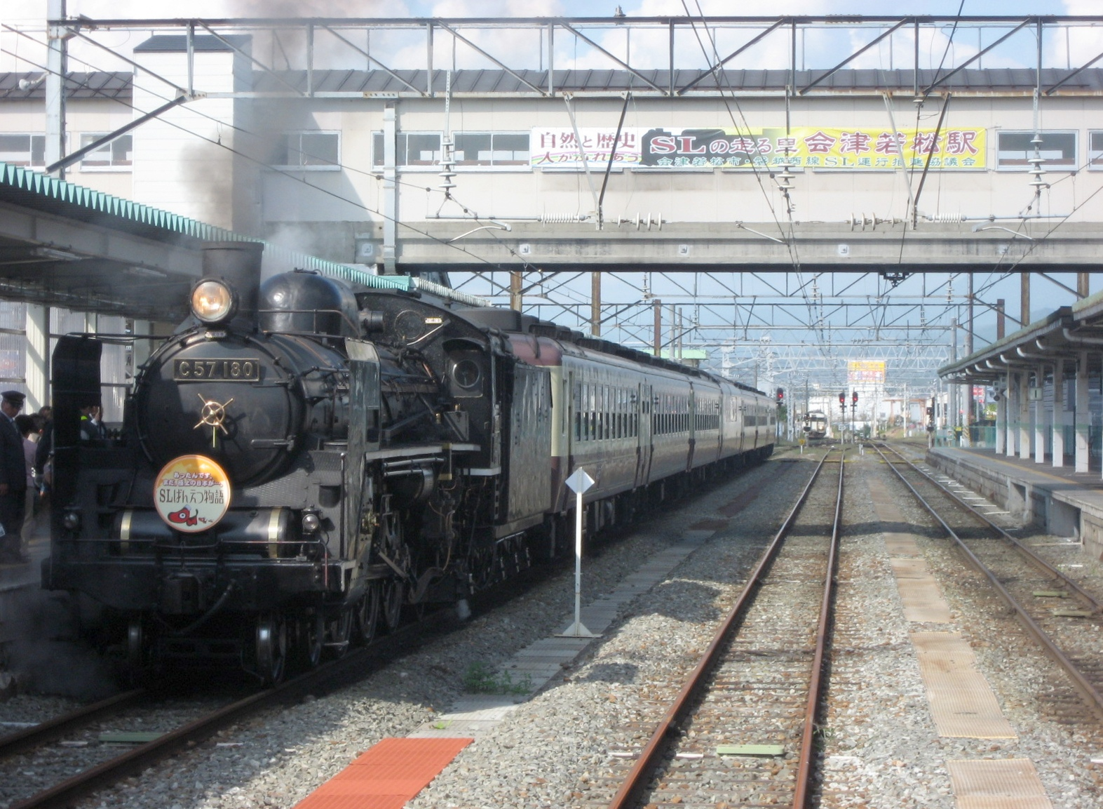 Engine C57-180 at the head of an SL Banetsu Monogatari train at Aizu Wakamatsu Station, Fukushima, Japan